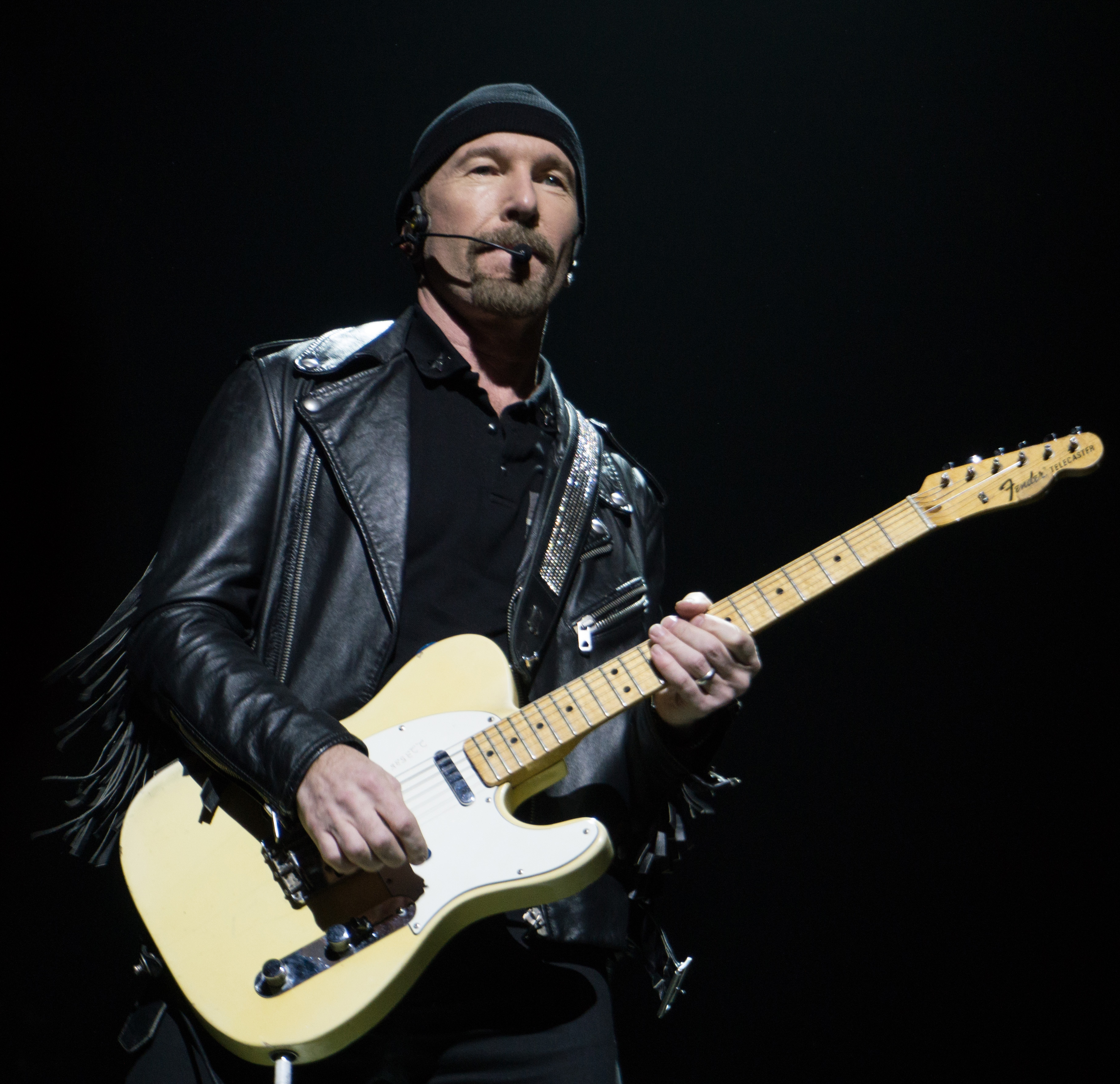 U2 guitarist the Edge during the band's Innocence + Experience Tour in Belfast on November 19, 2015